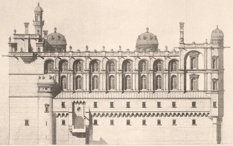 Monographie de la restauration du Château de Saint-Germain-en-Laye Planche 4 cropped